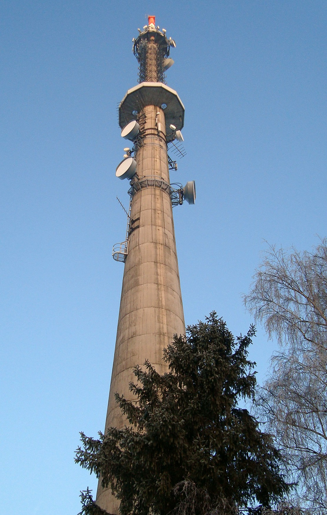 Transmitter, Radio Station 'Gelbelsee'